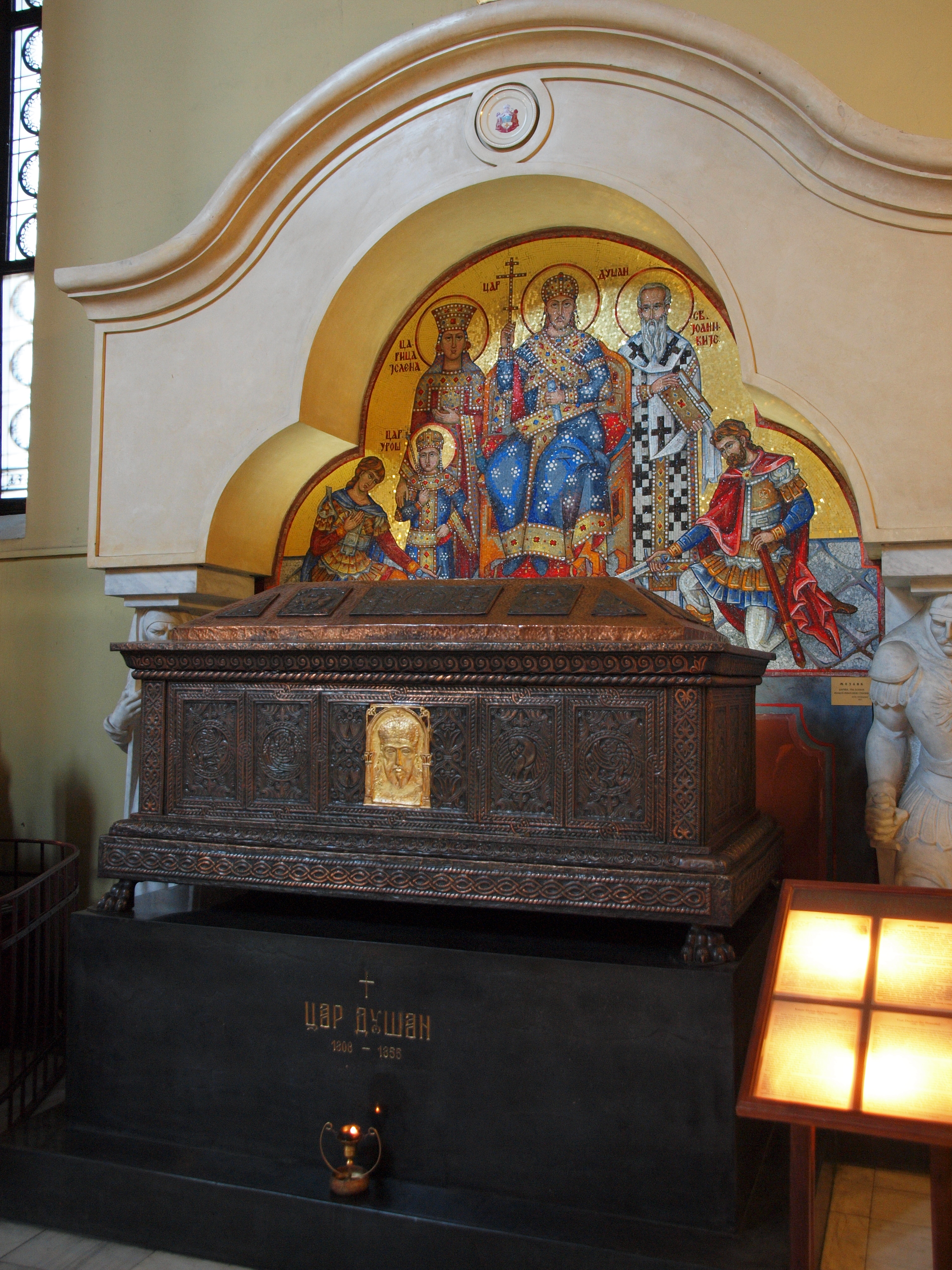 Tomb of Stefan Uroš IV Dušan of Serbia Sv Marko Belgrade